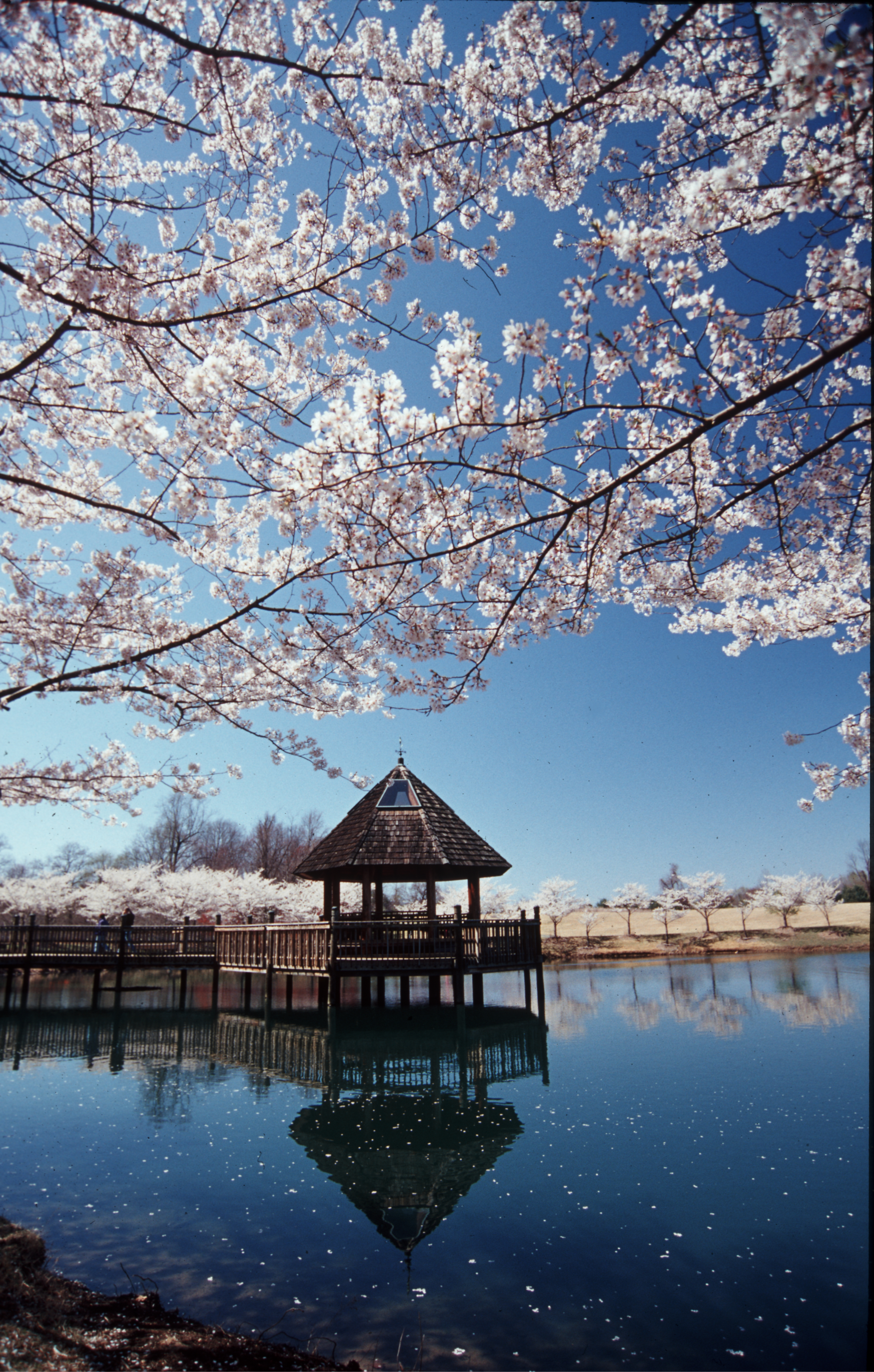 Lakeside Gazebo on Lake Caroline at Meadowlark Botanical Gardens, Virginia, United States.